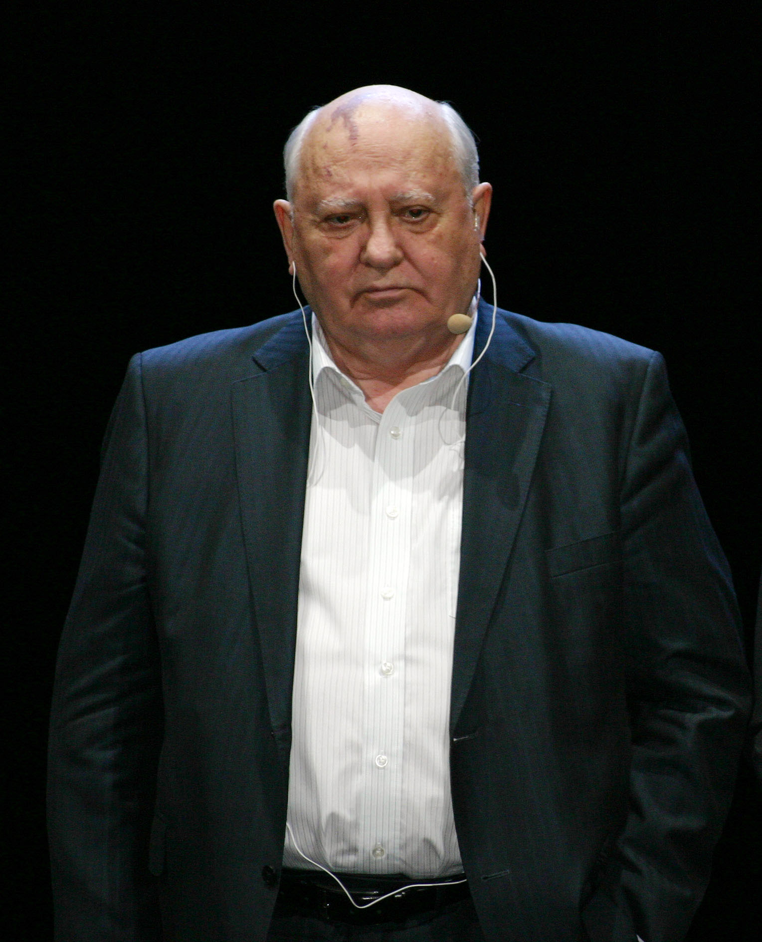 Mikhail Gorbachev during the German premiere of his book "All in good time. My Life" at the Berliner Ensemble.